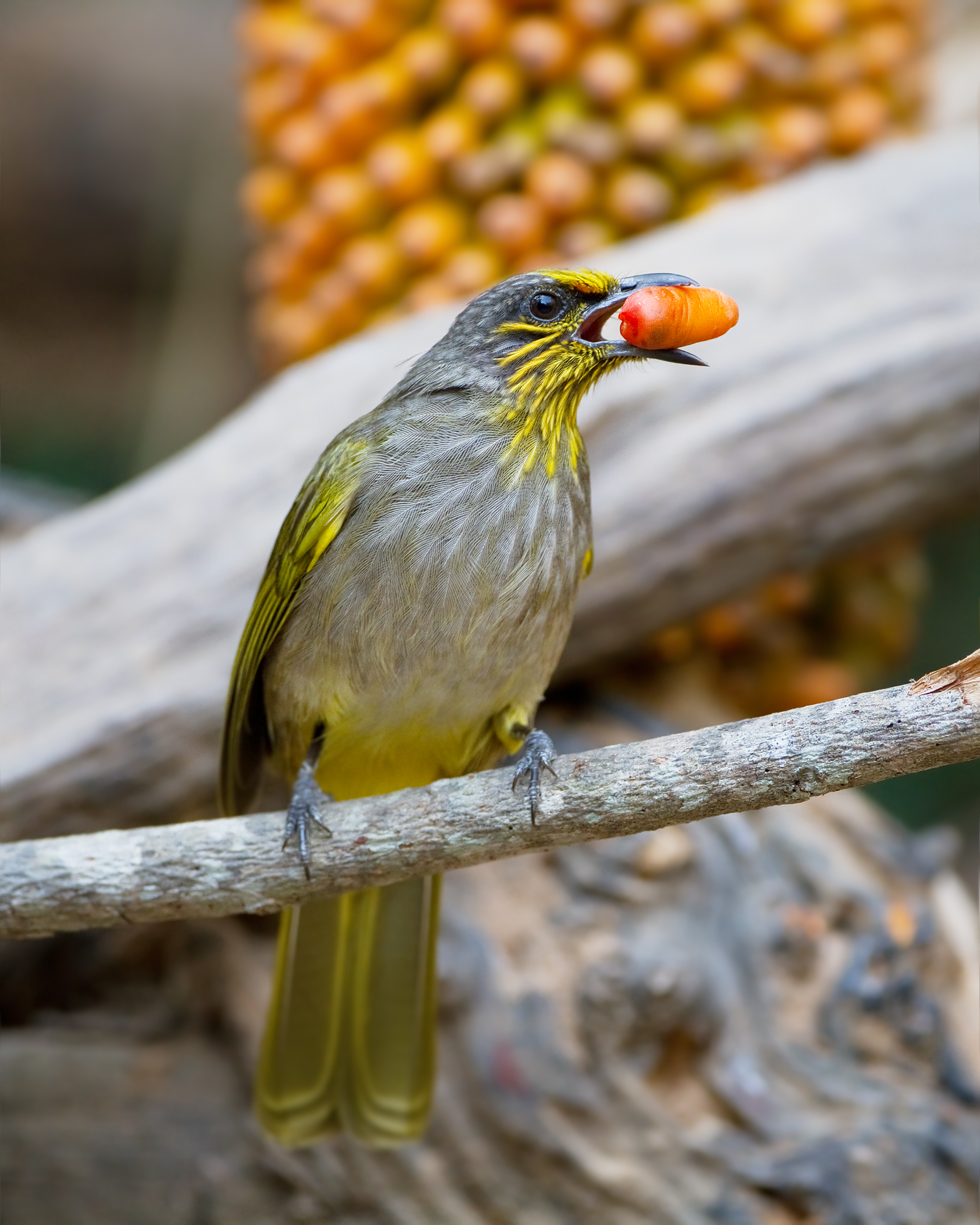 Stripe-throated Bulbul (Pycnonotus finlaysoni), Song Phi Nong, Kaeng Krachan, Phetchaburi, Thailand